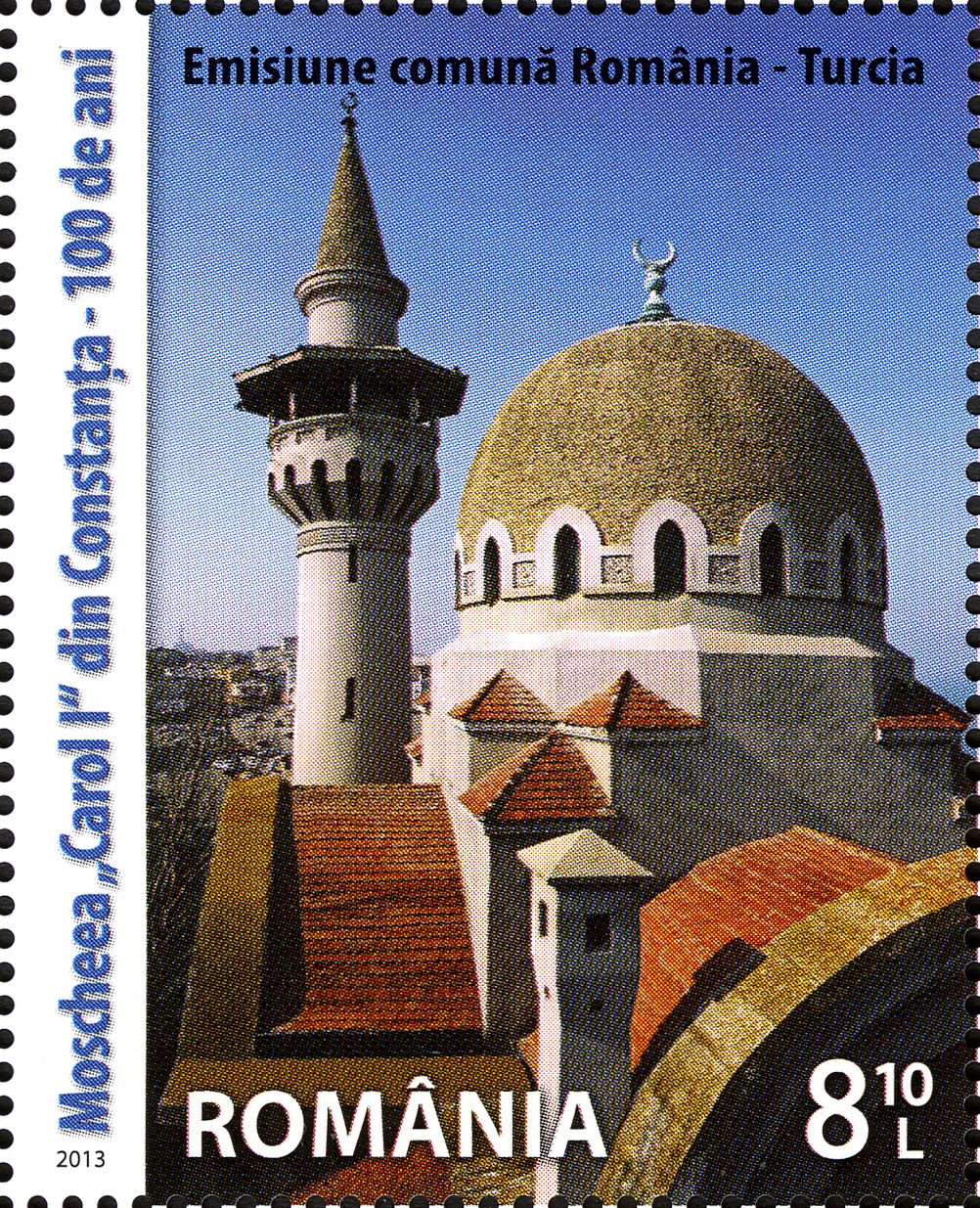 Stamps of Romania, 2013